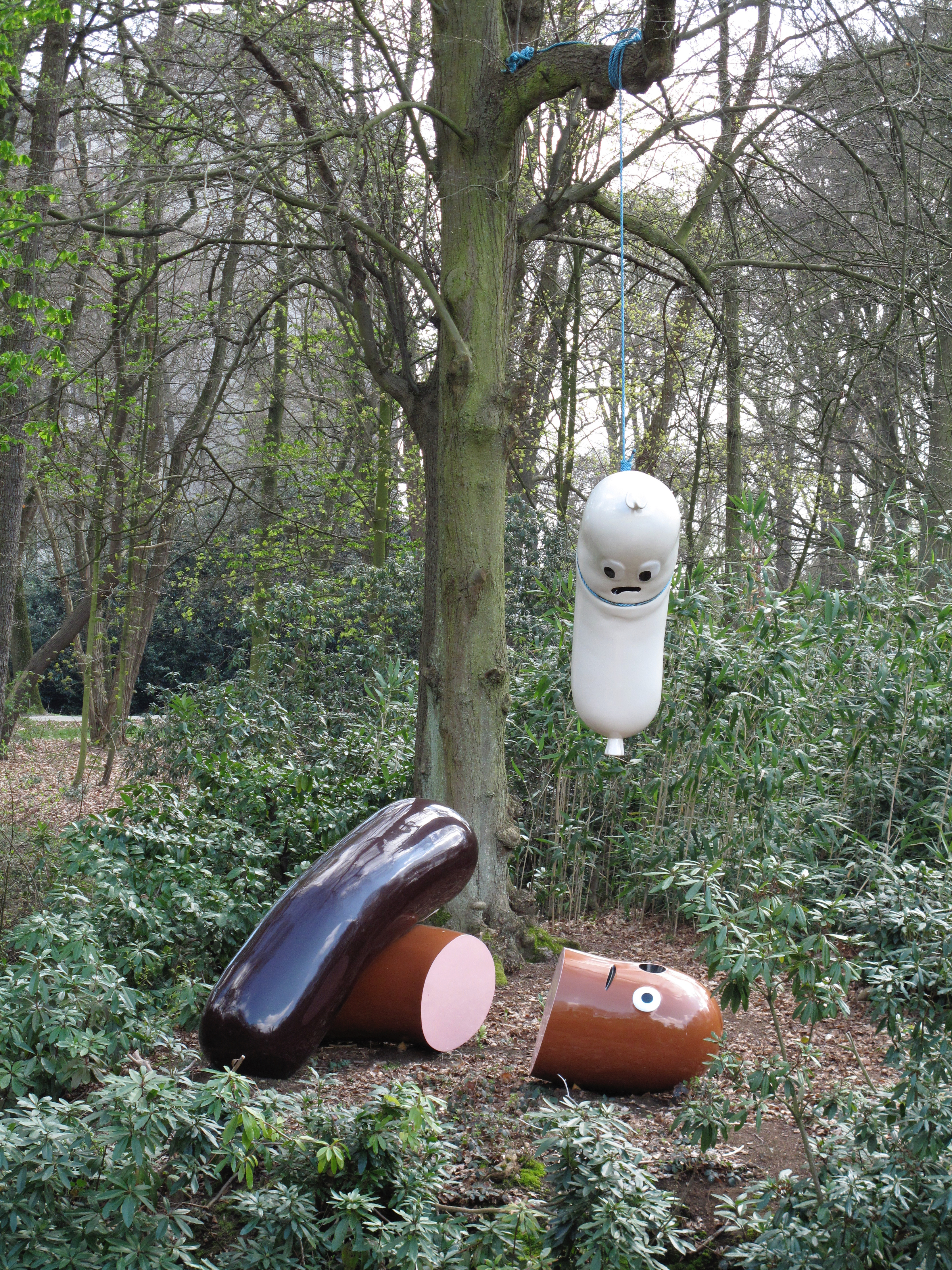 Public sculpture by Kati Heck in Antwerp